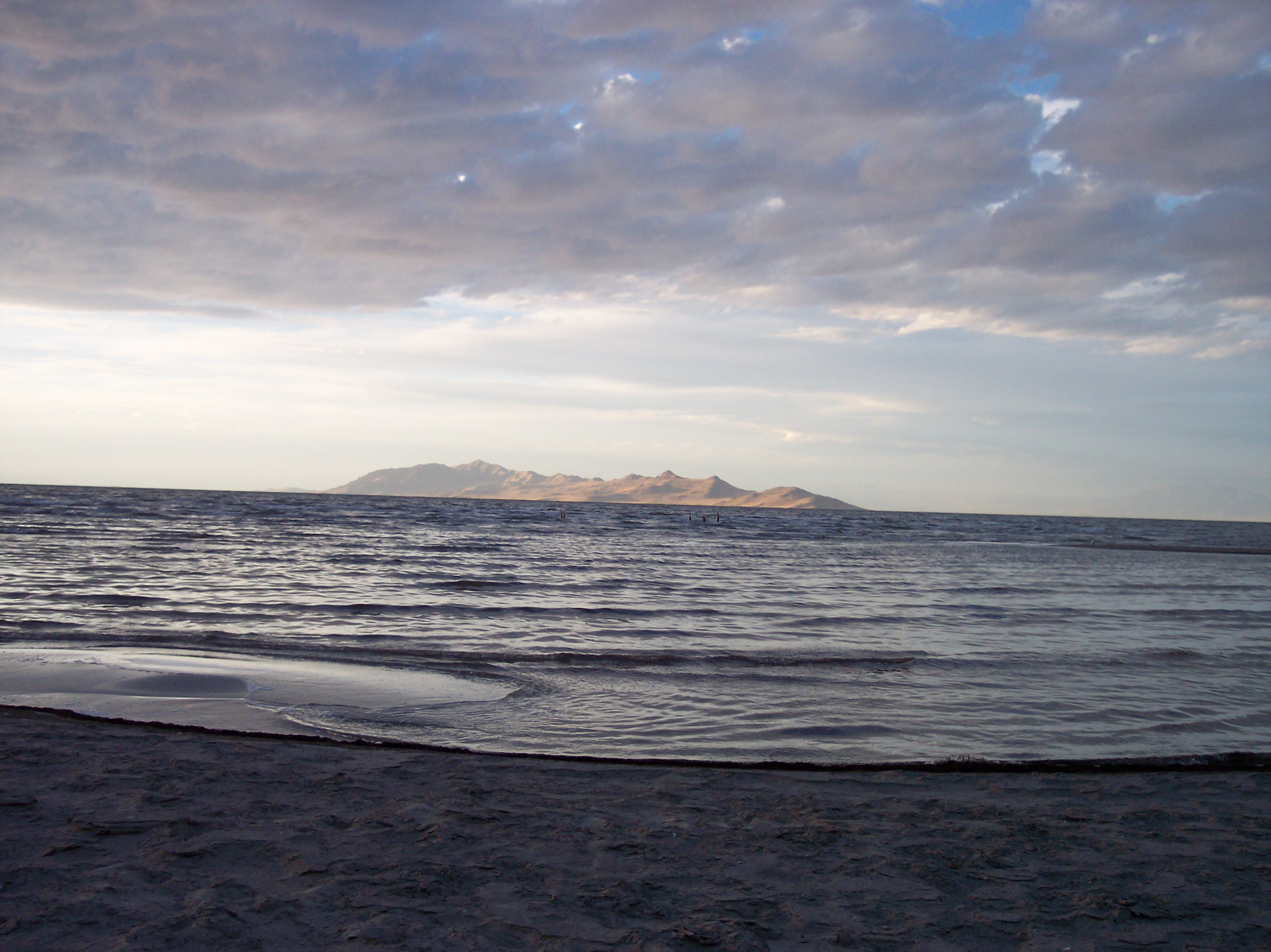 The Great Salt Lake as seen looking north towards Antelope Island from Sunset Beach.